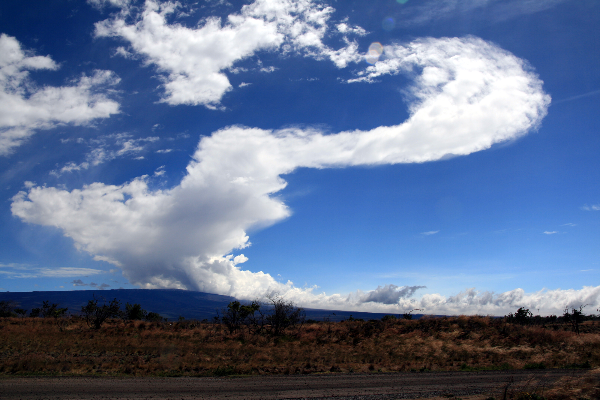 Clouds over Mauna Loa as seen from Saddle Road